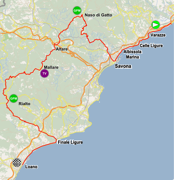 Map of the stage 7 of Giro Donne 2015. Background from OpenStreetMap.